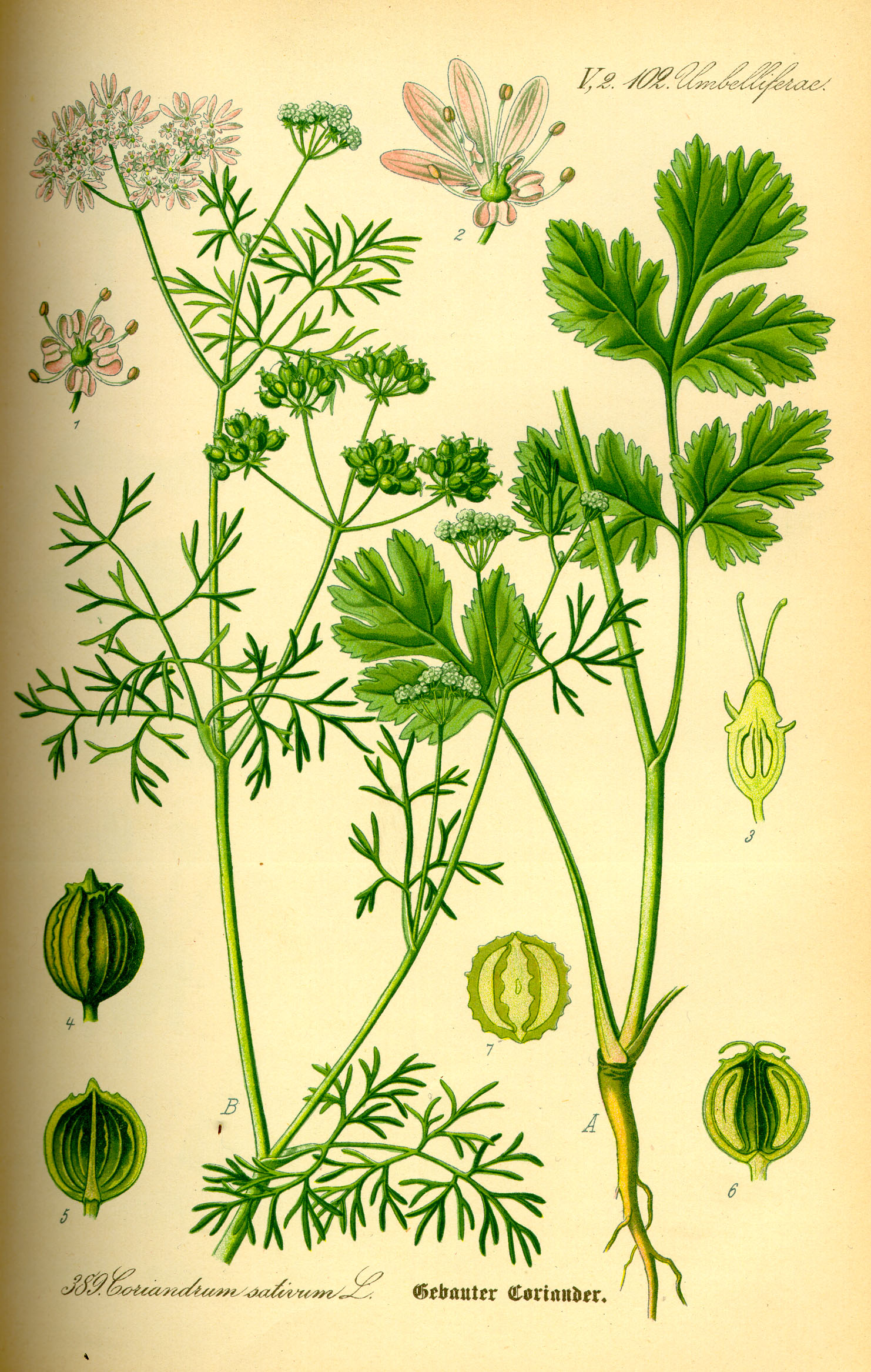 Name Coriandrum sativum Family Apiaceae